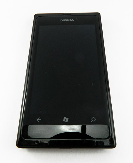 A picture of the Nokia Lumia 505